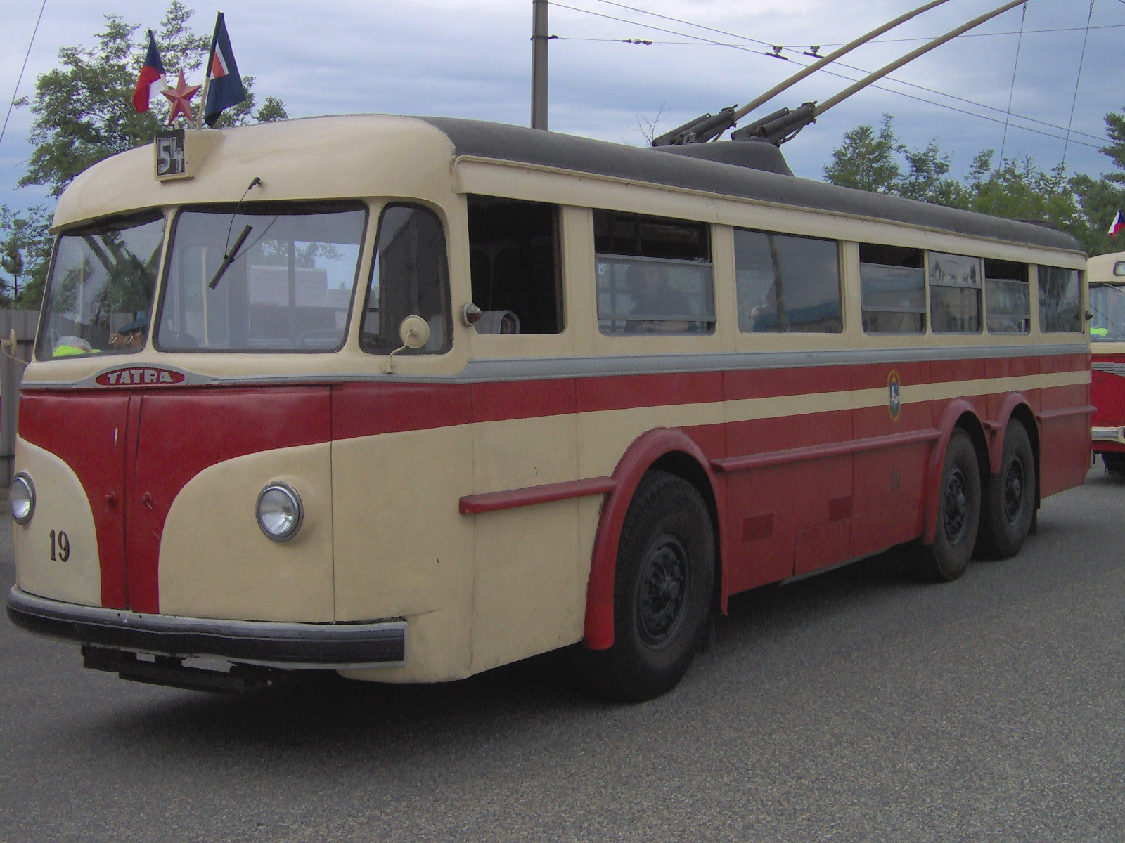 Historical Tatra T 400 trolleybus in Brno (the car come from Ostrava, now possession of Technical museum Brno)